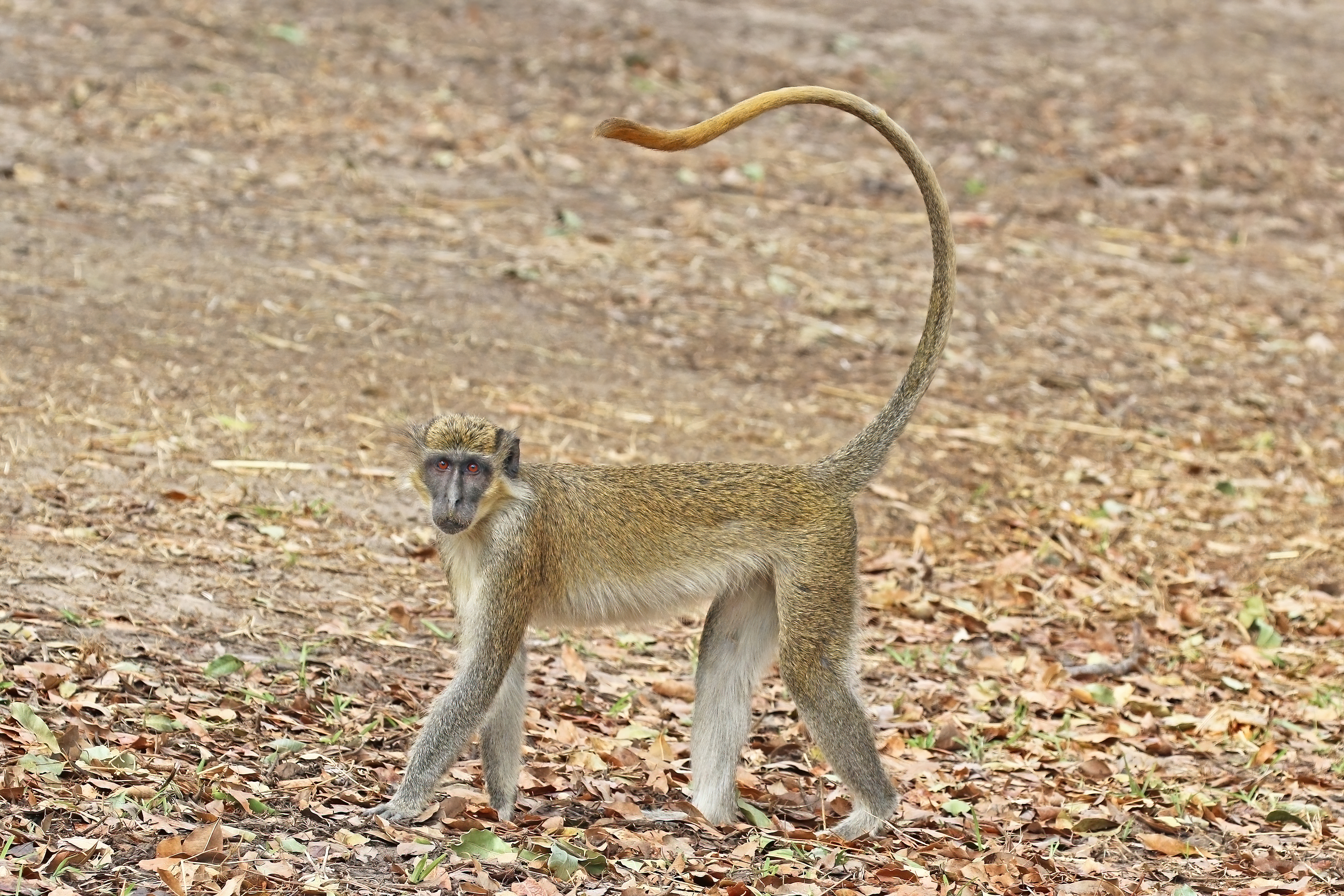 Green monkey (Chlorocebus sabaeus), male, Senegal